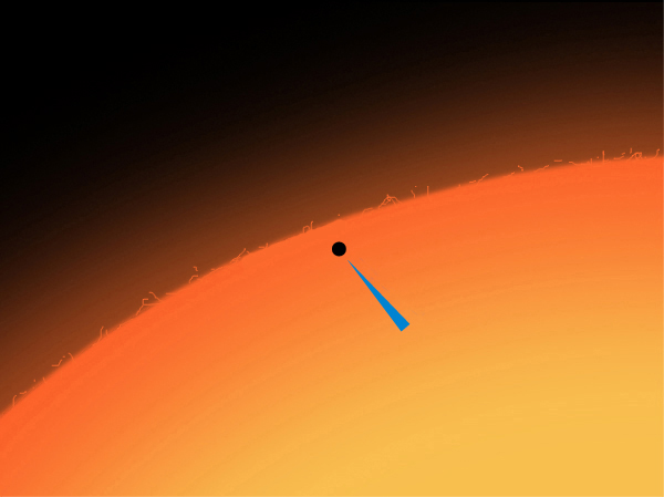 During the transit on May 7, 2003, Mercury could be seen as a small, black dot on the surface of the Sun. (illustration)